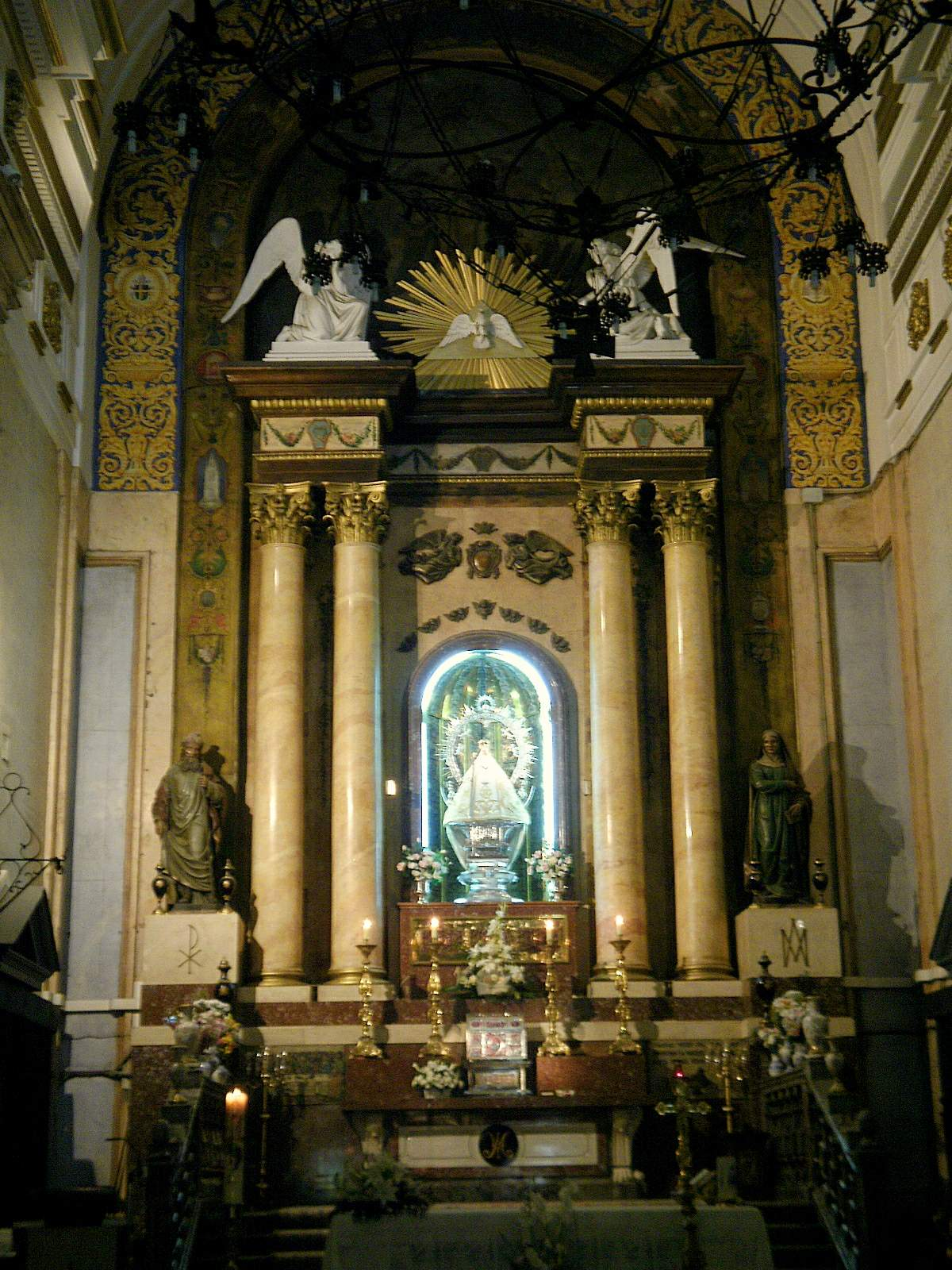 Altar mayor de la Basílica de N. S. del Prado, Talavera de la Reina